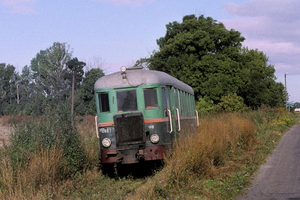 Polish narrow gauge motor wagon MBxd1 168 in Ostrowy